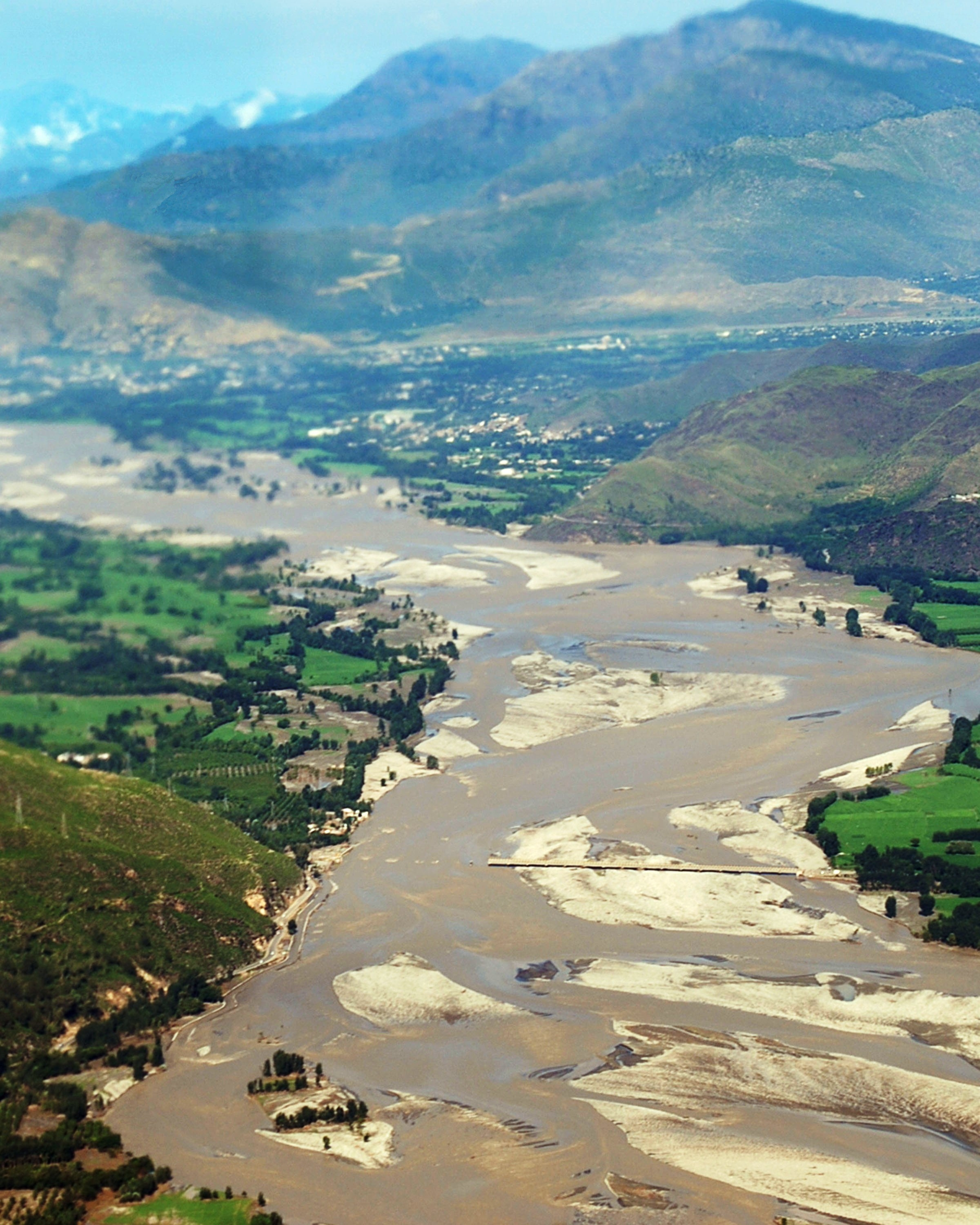 Damaged bridge in the Swat valley in Pakistan on August 11th, 2010. The bridge was destroyed by flood waters.